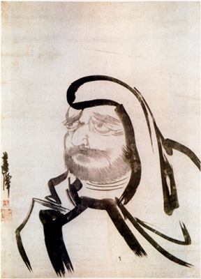 달마도 Kim Myeong-guk, Joseon dynasty, 1636~1637 or 1643년 water-based ink on paper 83 x 58.2cm Category:National Museum of Korea